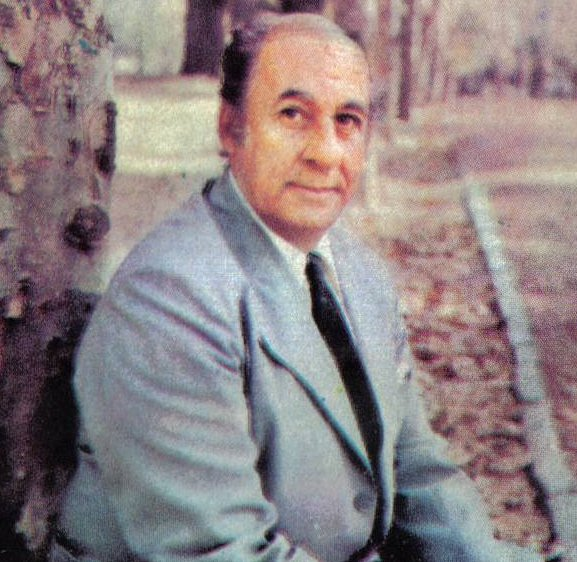 Isaco Abitbol. Chamamé. Corrientes. Argentina. Album "Expresión de mi tierra" (1979)